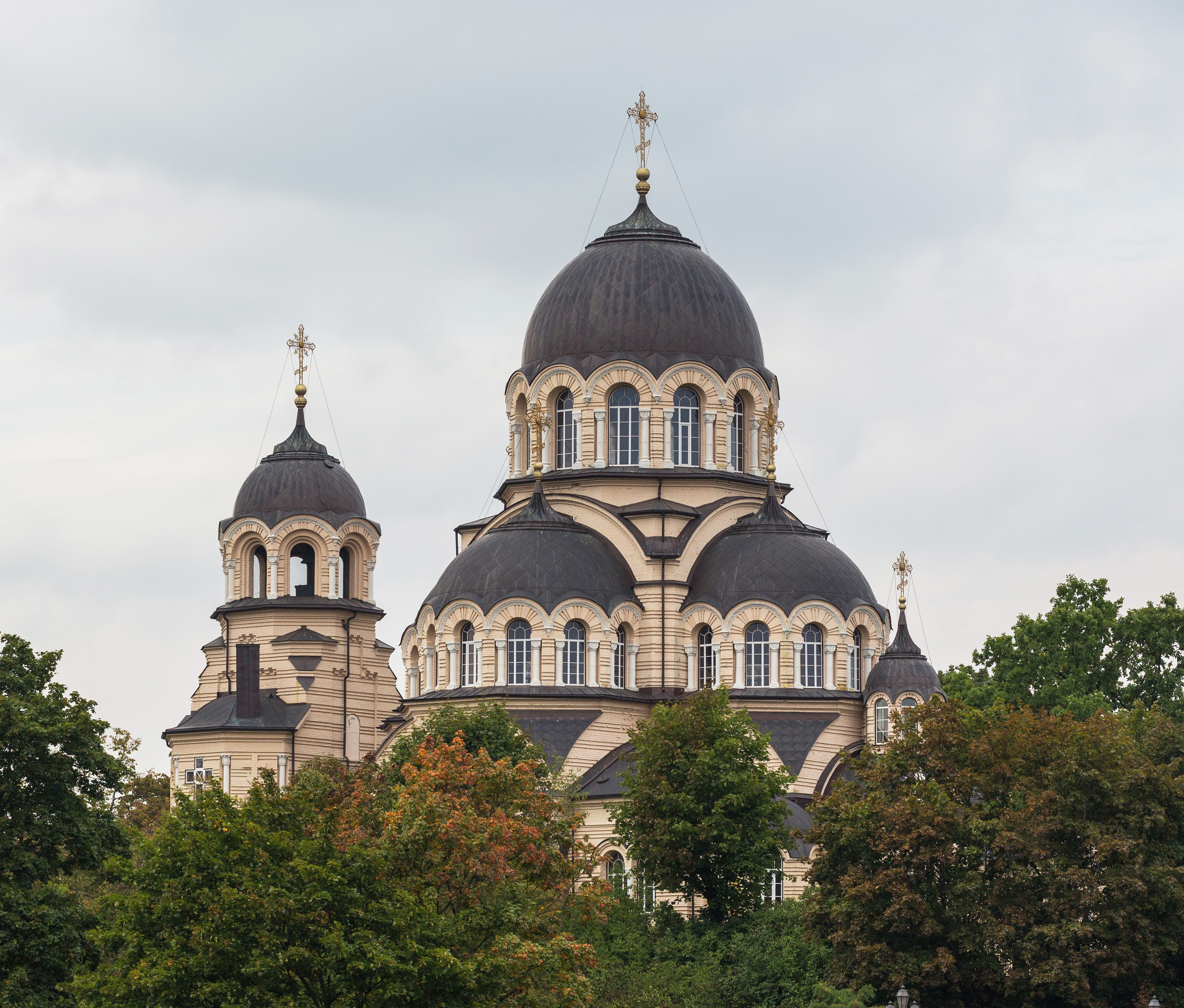 The domes Orthodox Church of Revelation of the Holy Mother of God in Vilnius, Lithuania.